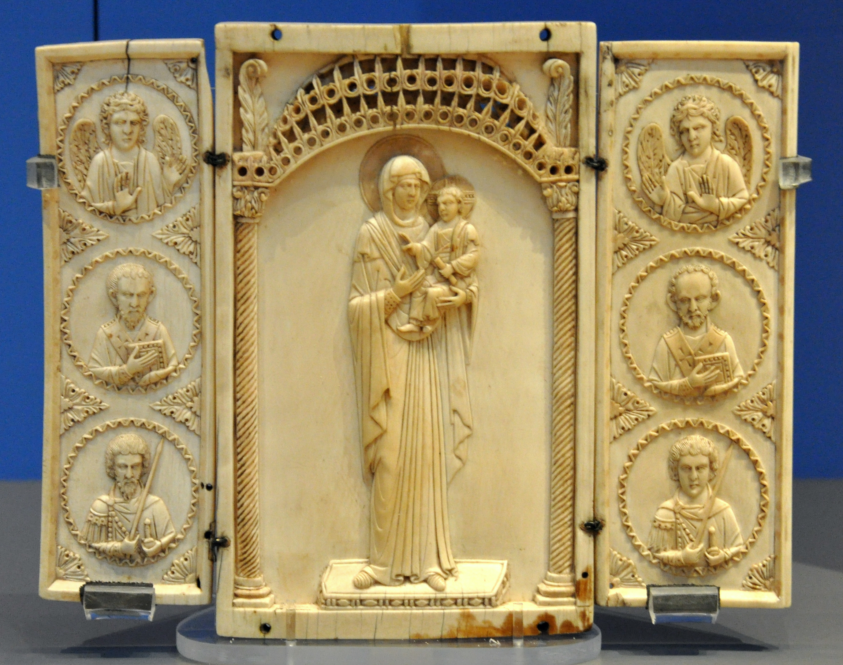 British Museum reference 1978,0502.10 Detailed description Wernher Triptych; ivory; Byzantine Empire, 900–1000 AD, in the central panel stands the Virgin Hodegetria; on the side leaves an angel and two saints in medallions; on the left St Nicholas and St Theodore, and on the right St John Chrysostom and St George. Location Room 40